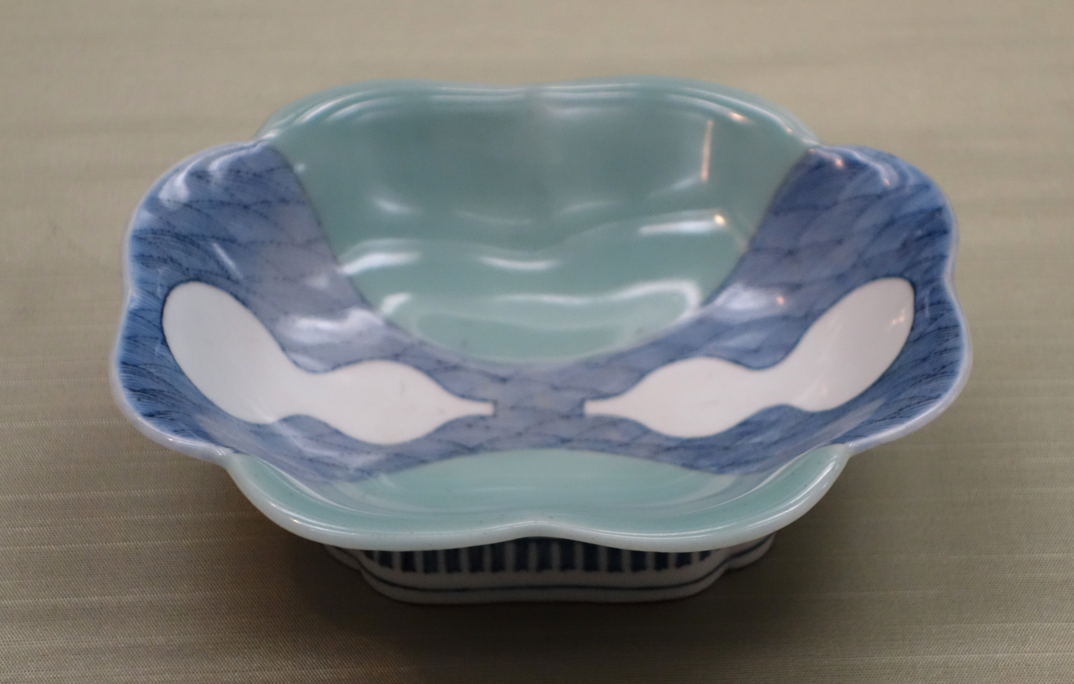 Exhibit in the Tokyo National Museum, Tokyo, Japan. This artwork is old enough so that it is in the public domain.